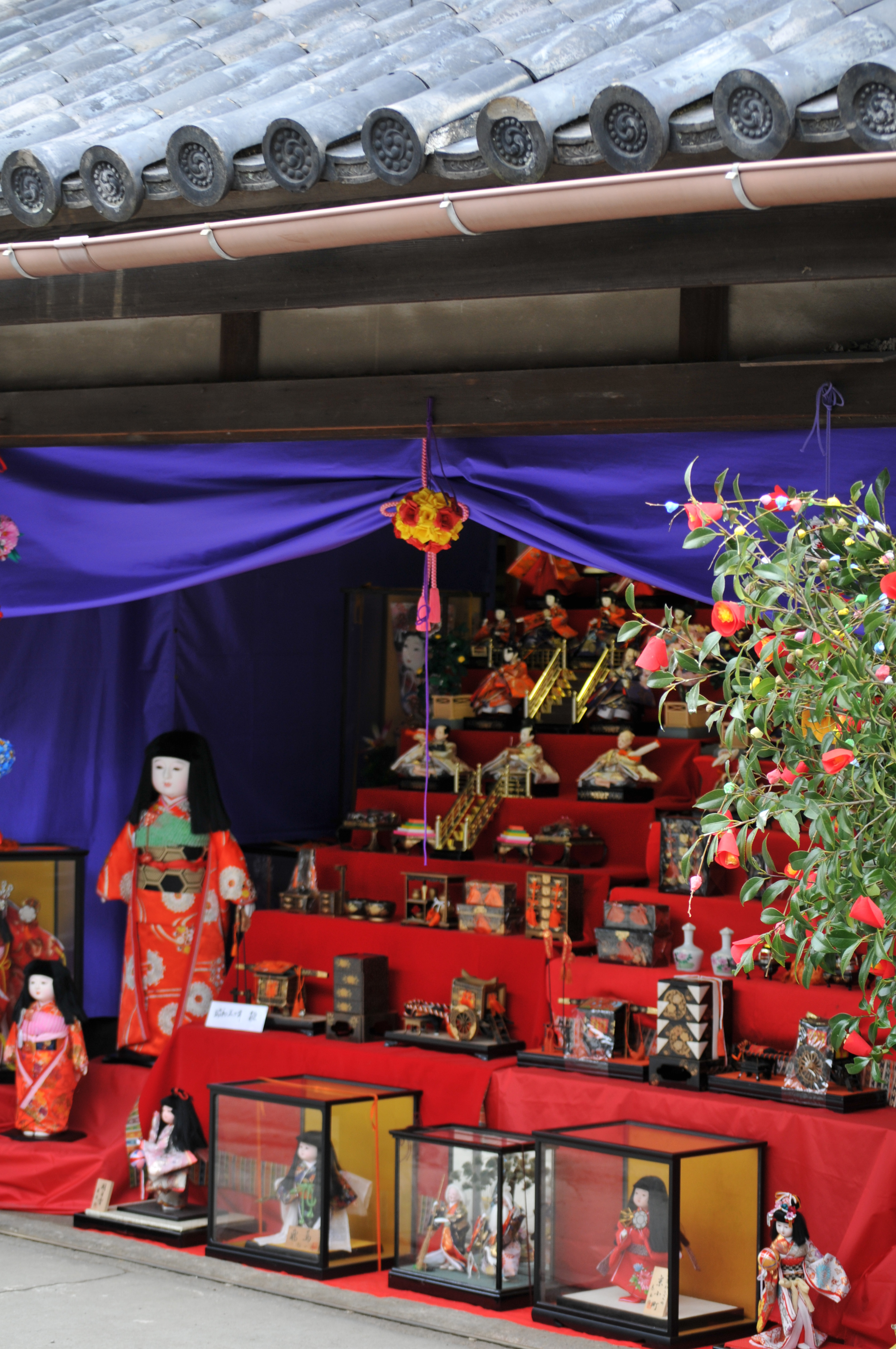 Hina dolls